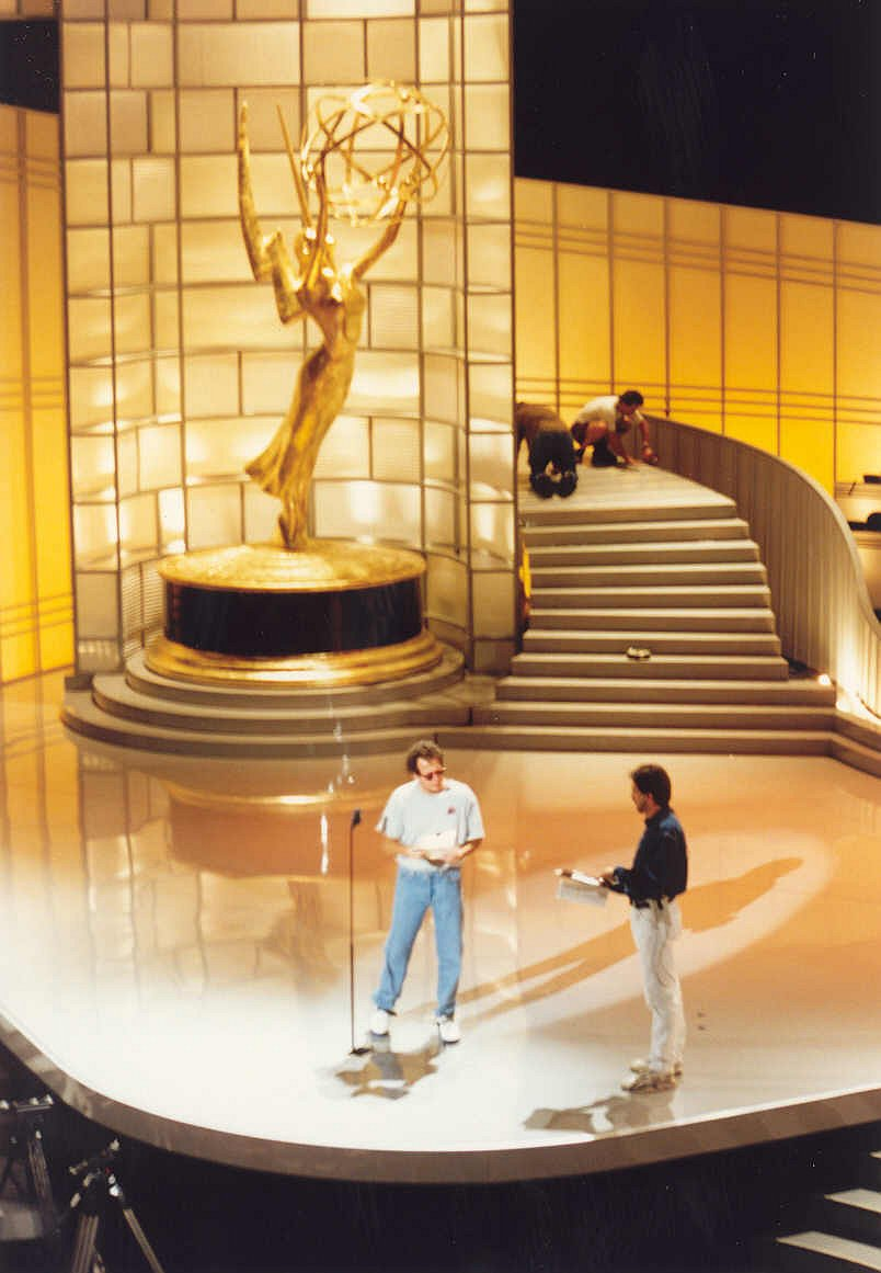 Photo taken at the 45th Emmy Awards 9/19/93- Permission granted to copy, publish or post but please credit "photo by Alan Light" if you can